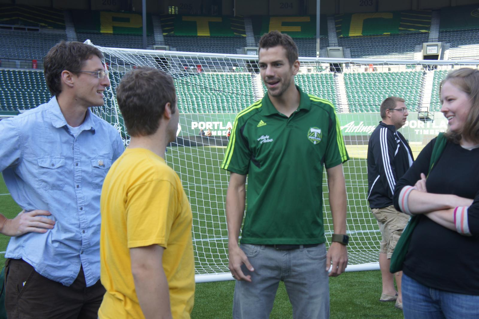 Eric Brunner of the Portland Timbers at a fan meet-and-greet event in 2011.